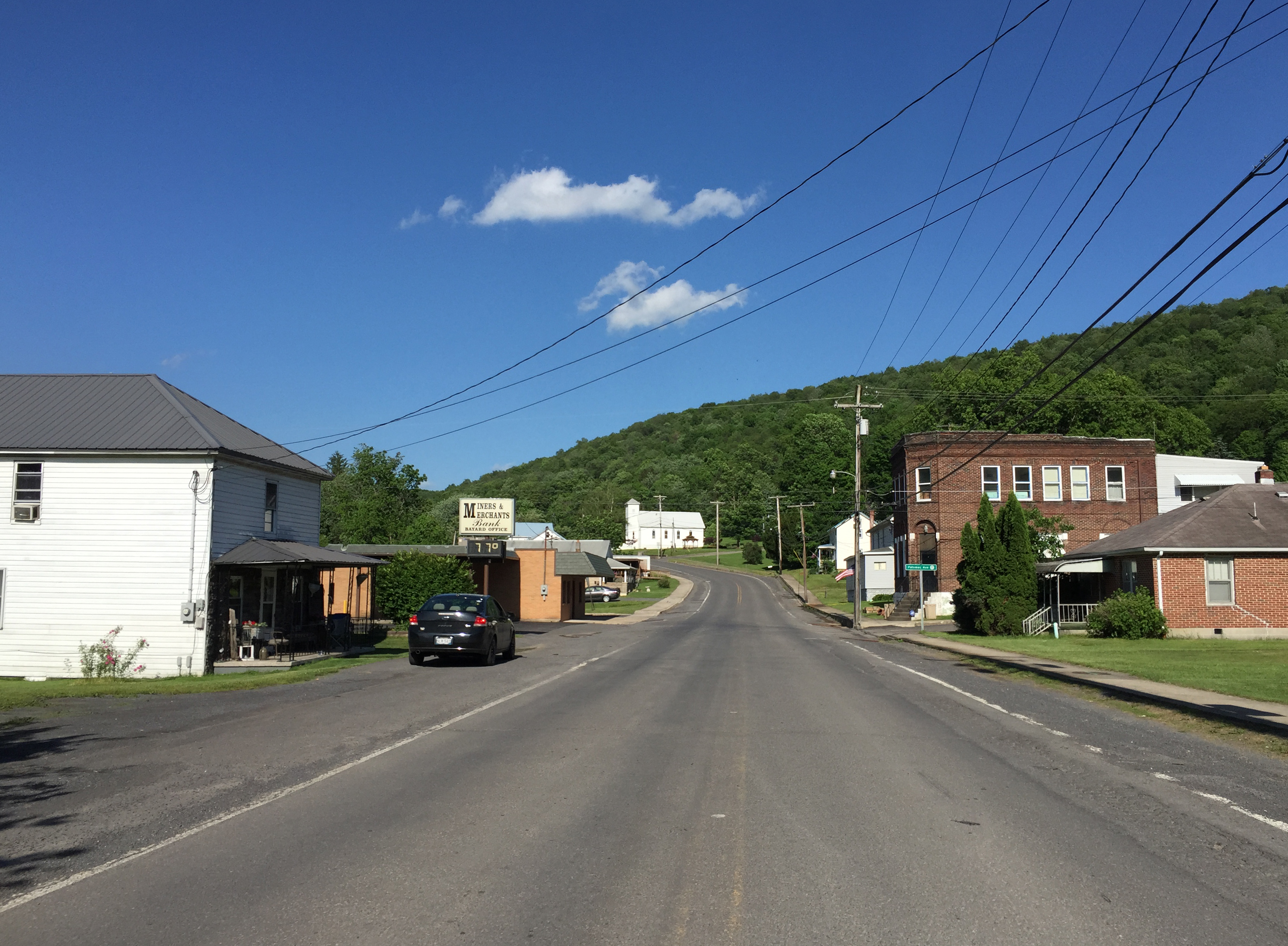 View north along West Virginia State Route 90 (Front Street) between Buffalo Avenue and Potomac Avenue in Bayard, Grant County, West Virginia